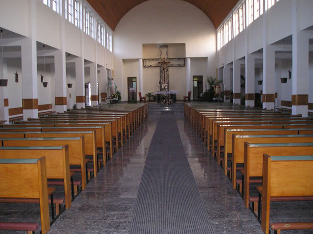 Roman Catholic church of St. Elijah in Tihaljina,Grude